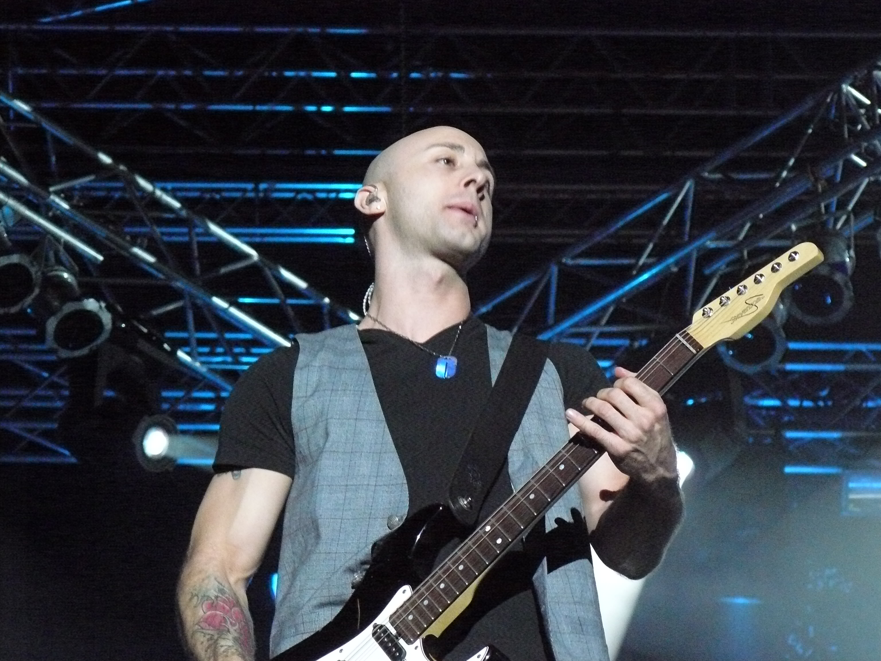 Jeff Stinco performs with Simple Plan at the band's show on the Plains of Abraham, Quebec City, July 1, 2008